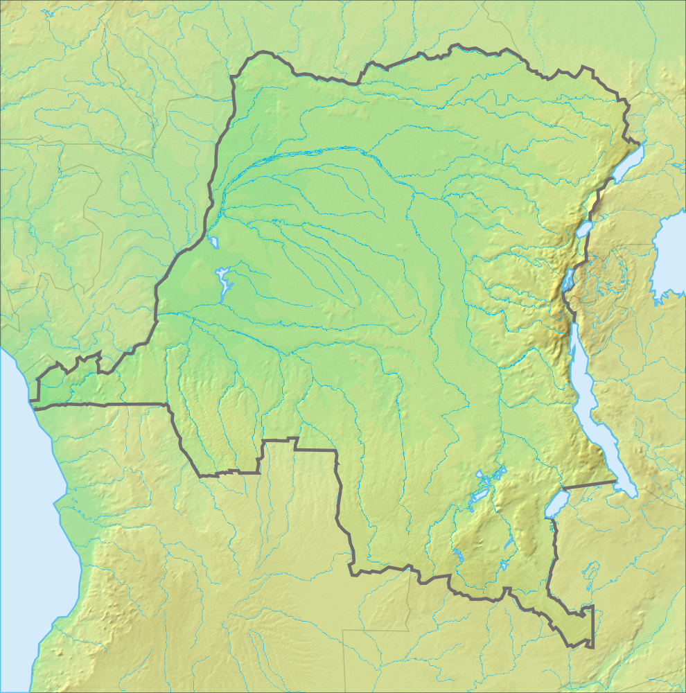 Relief du Congo-Kinshasa